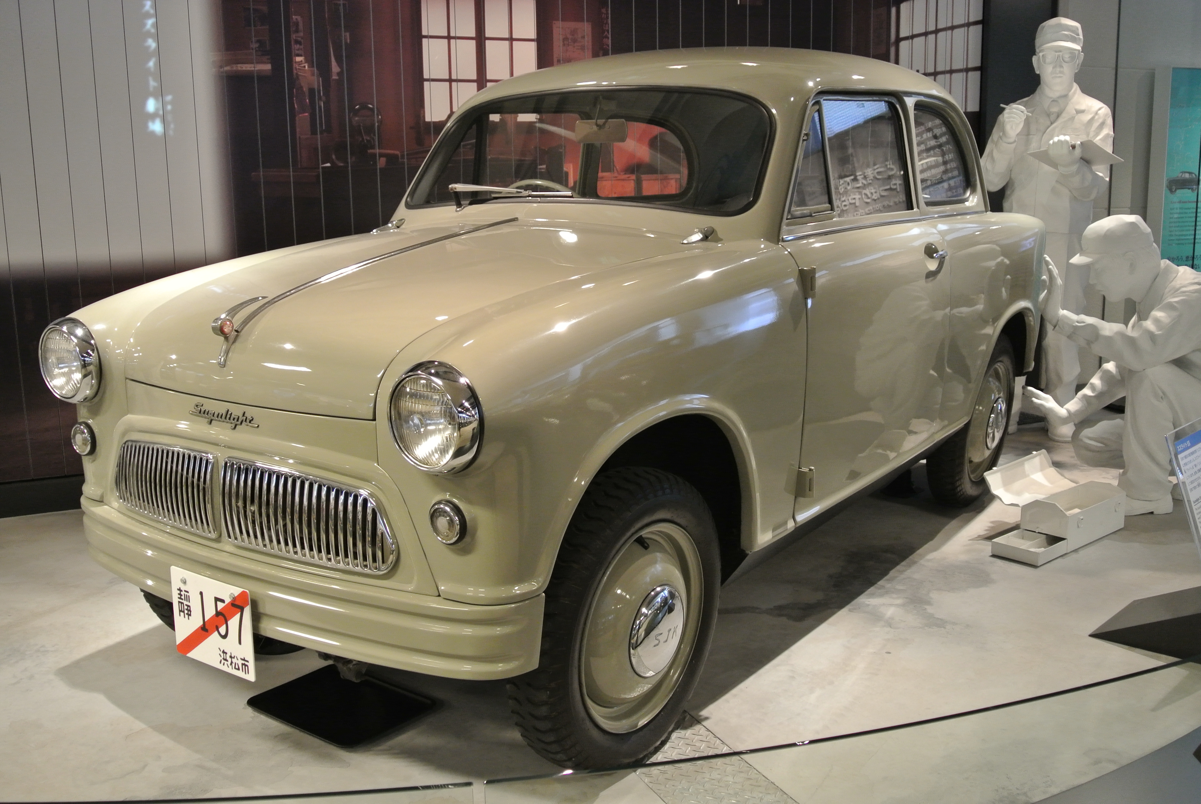 1955 Suzuki Suzulight SS in the Suzuki History Museum.